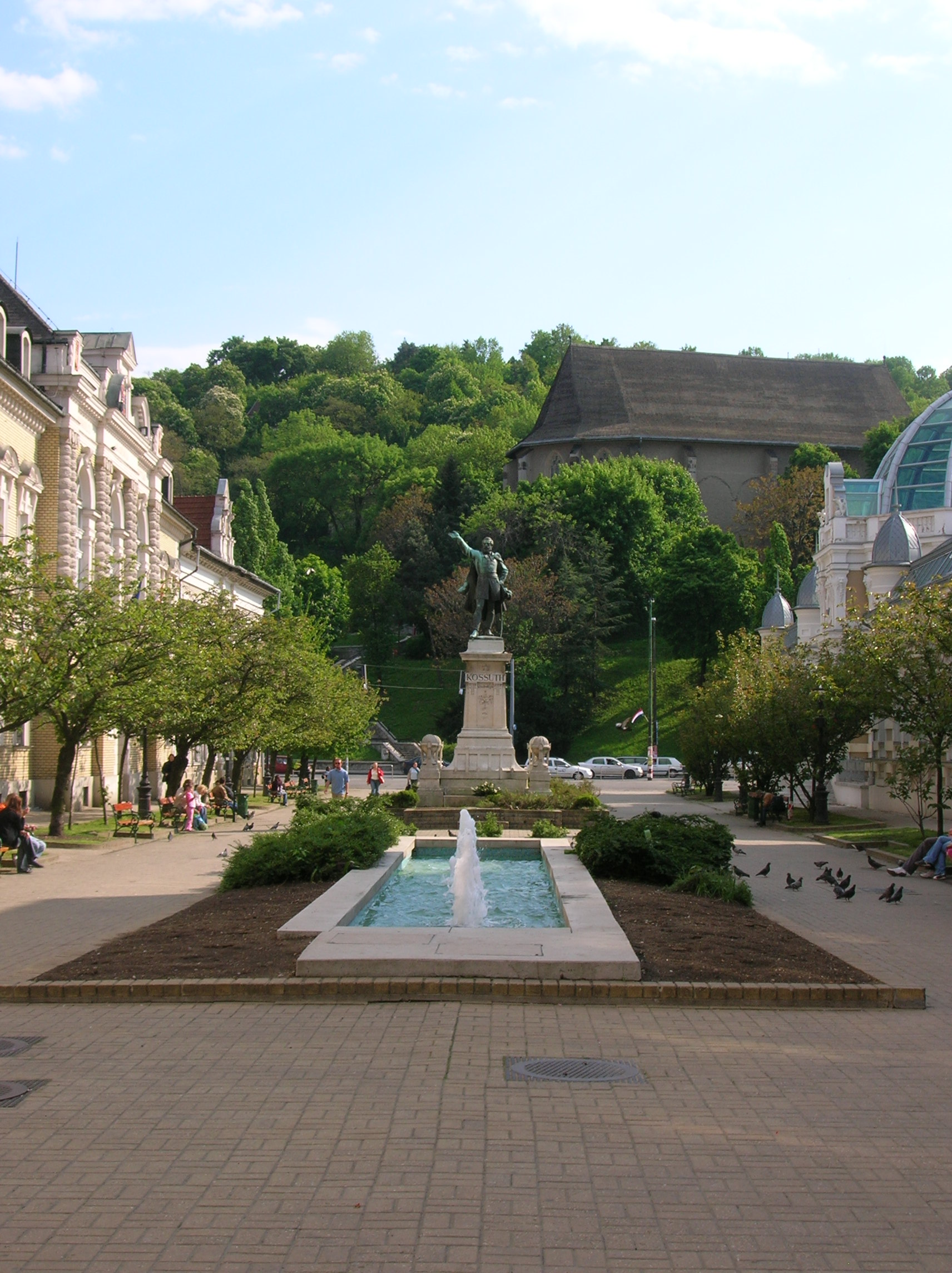 Statue of Lajos Kossuth on Erzsébet square, Miskolc, Hungary. With the old Gothic church in the background.